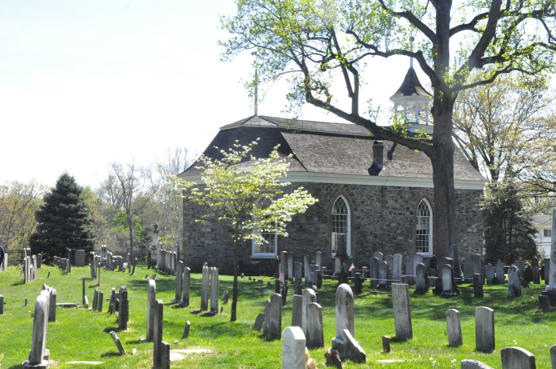 Church of the Manor of Phillipsburgh erected by Frederick Philipse 1697